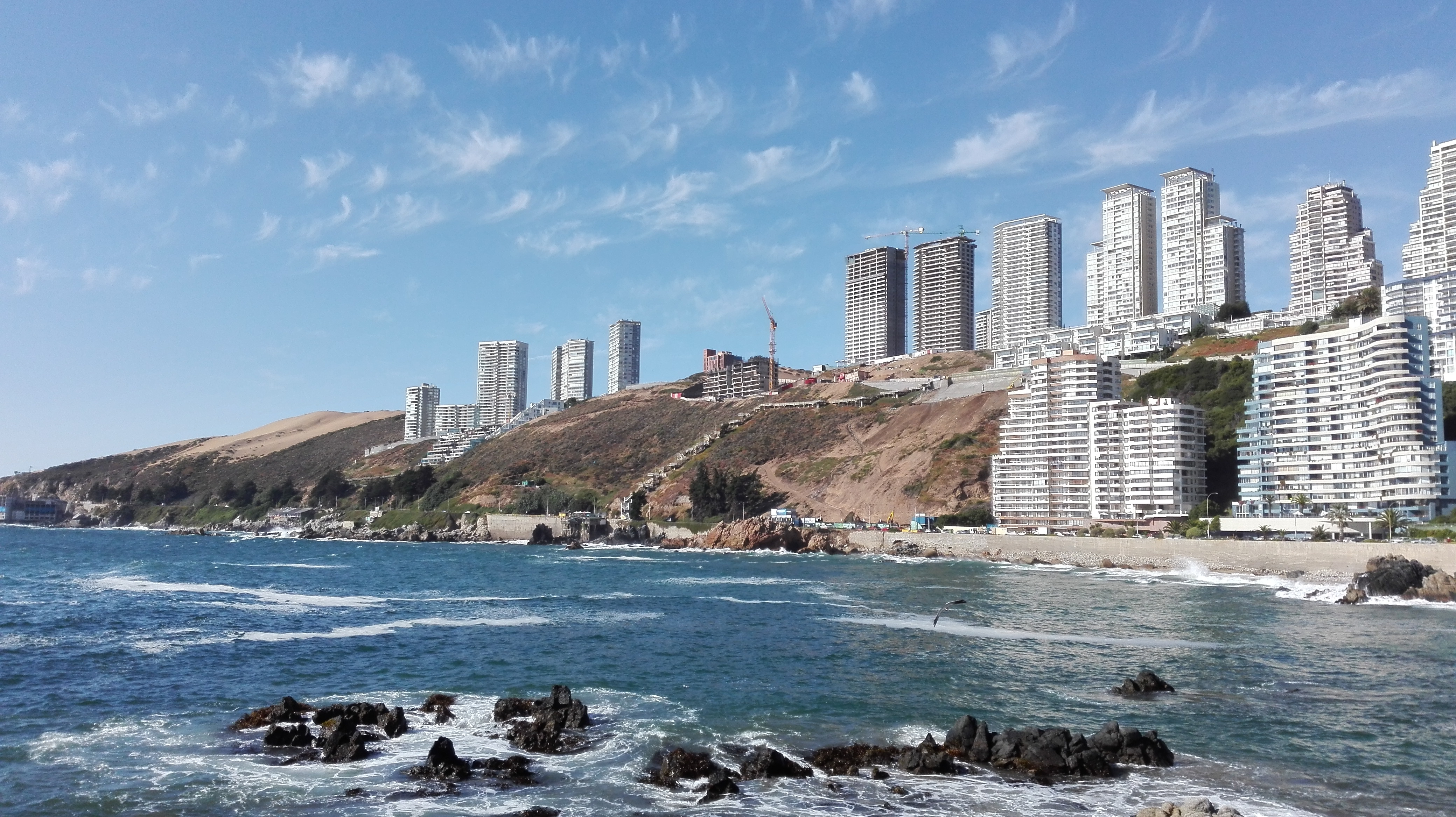 Vista de Concón desde Cochoa, región de Valparaíso, Chile.